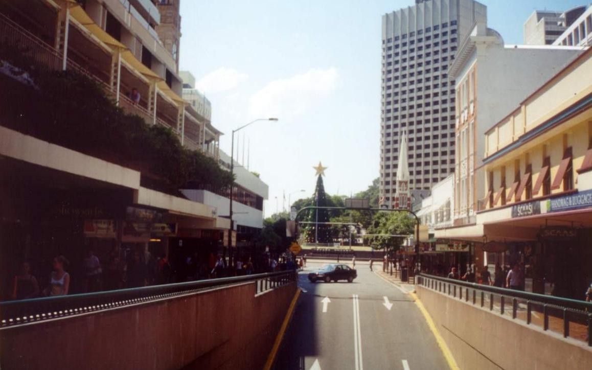 Queen Street Bus Station entranc/exit in Albert Street in Brisbane ( this photograph was taken by Figaro )